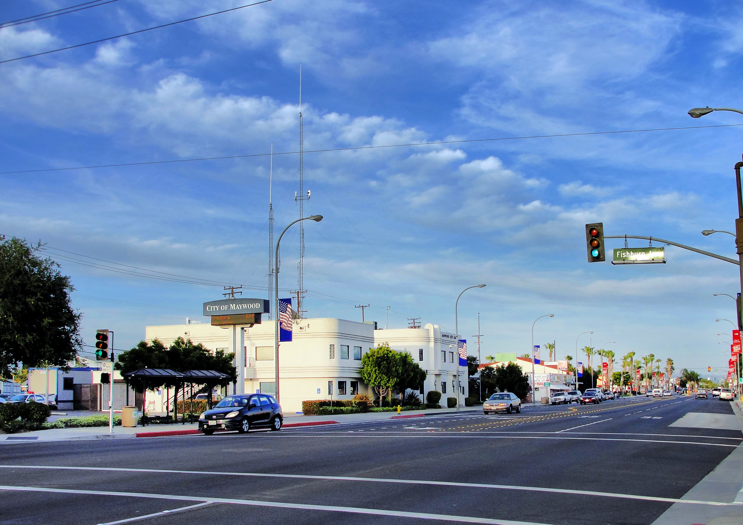 Maywood City Hall